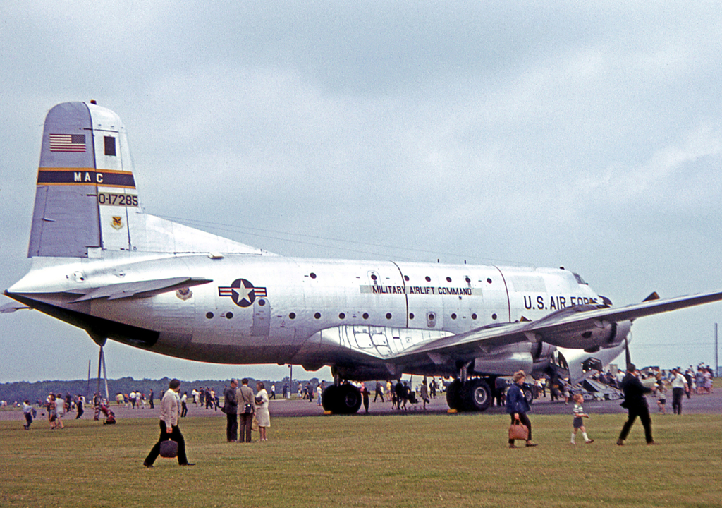 Douglas C-124C Globemaster II 51-7285 of 436 Military Airlift Wing at RAF Wethersfield in 1967